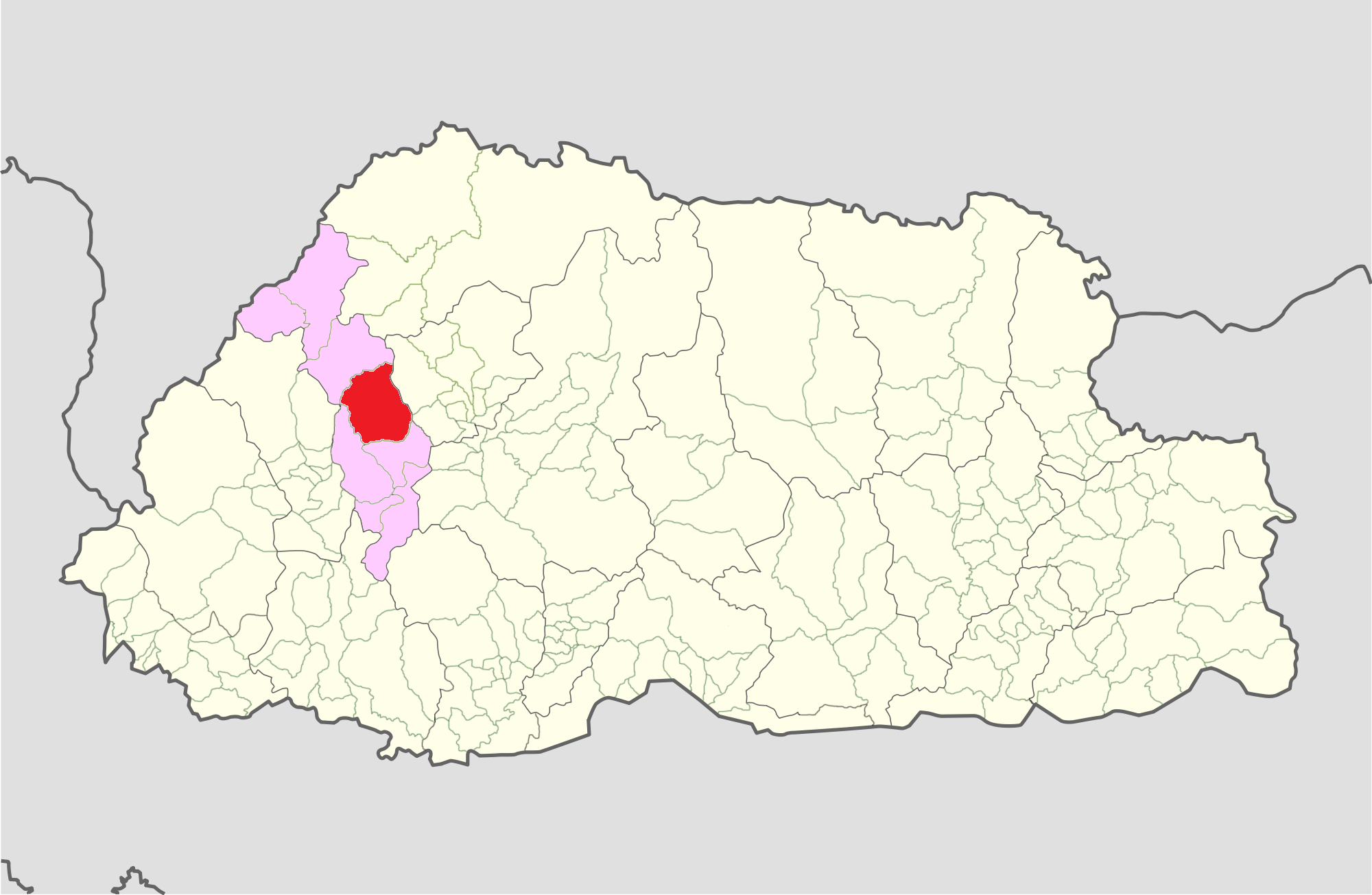 Kawang Gewog within Thimphu District, Bhutan